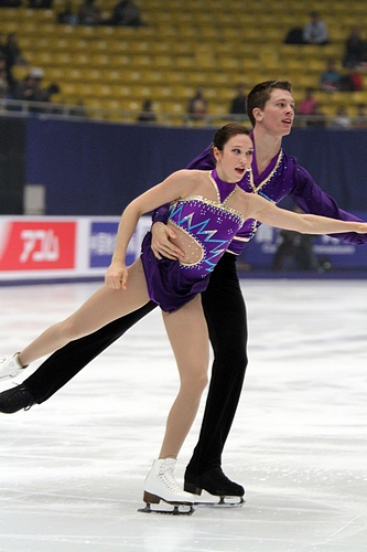 Kaleigh Hole / Adam Johnson at the Cup of China 2010